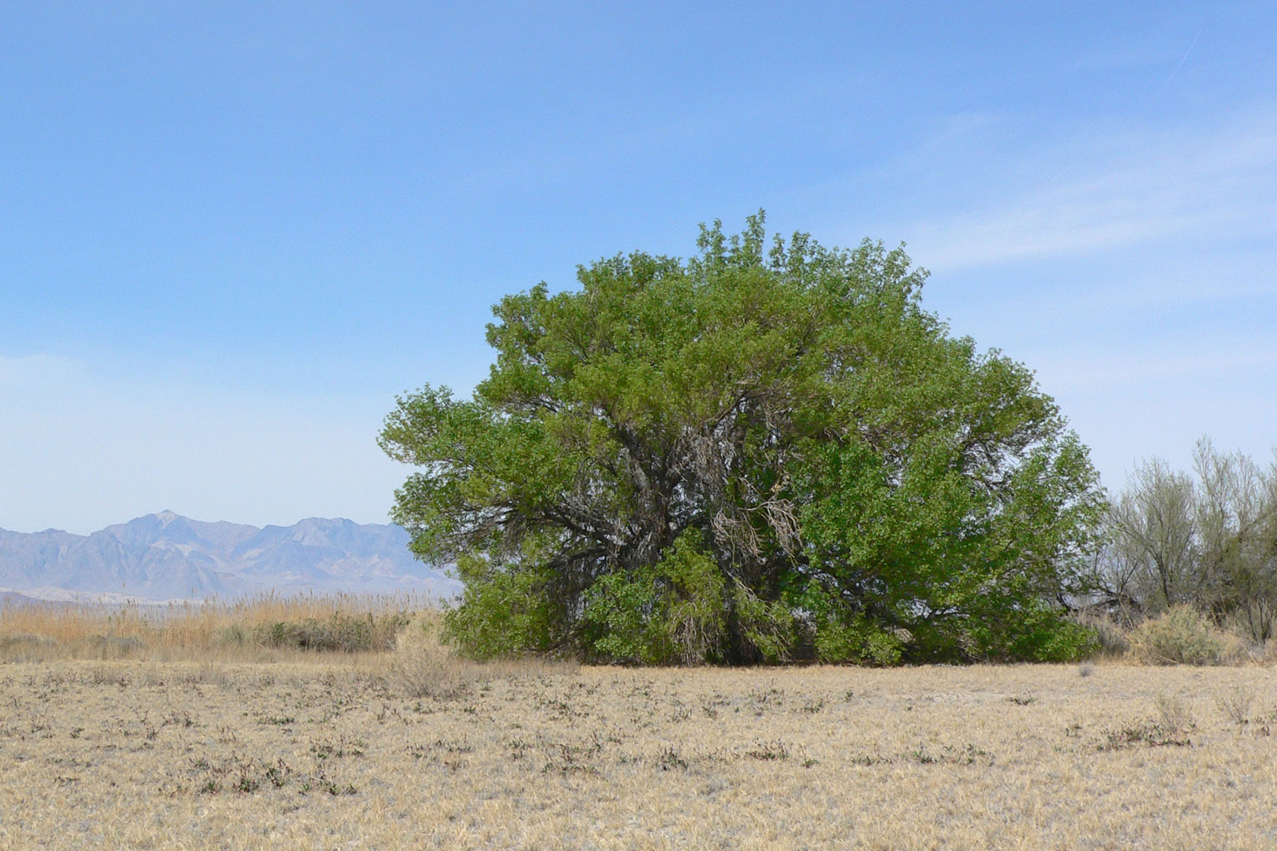 Fraxinus velutina at seep near Devils Hole Road south of Devils Hole, Ash Meadows, southern Nevada